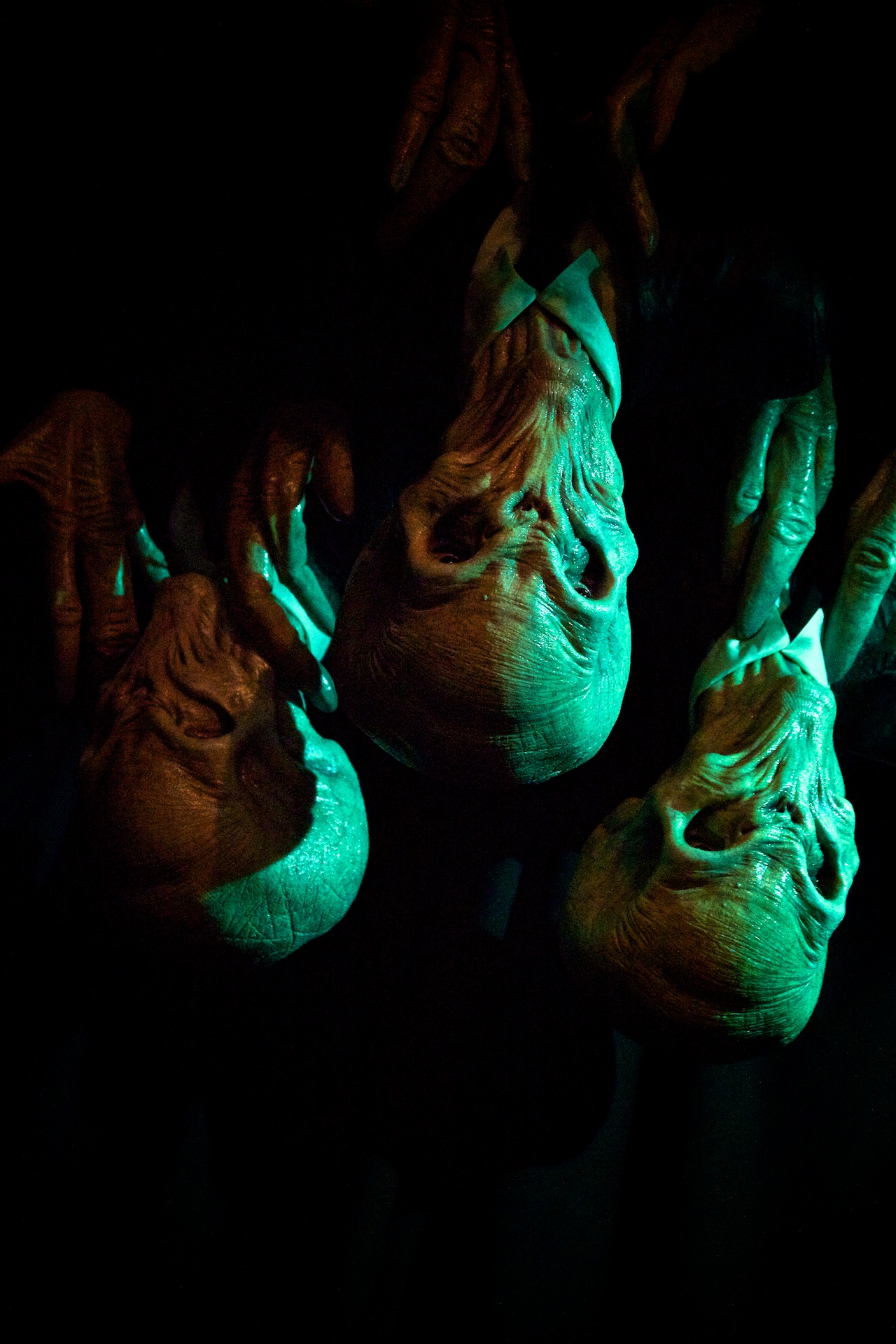 The Silences Doctor Who Experience